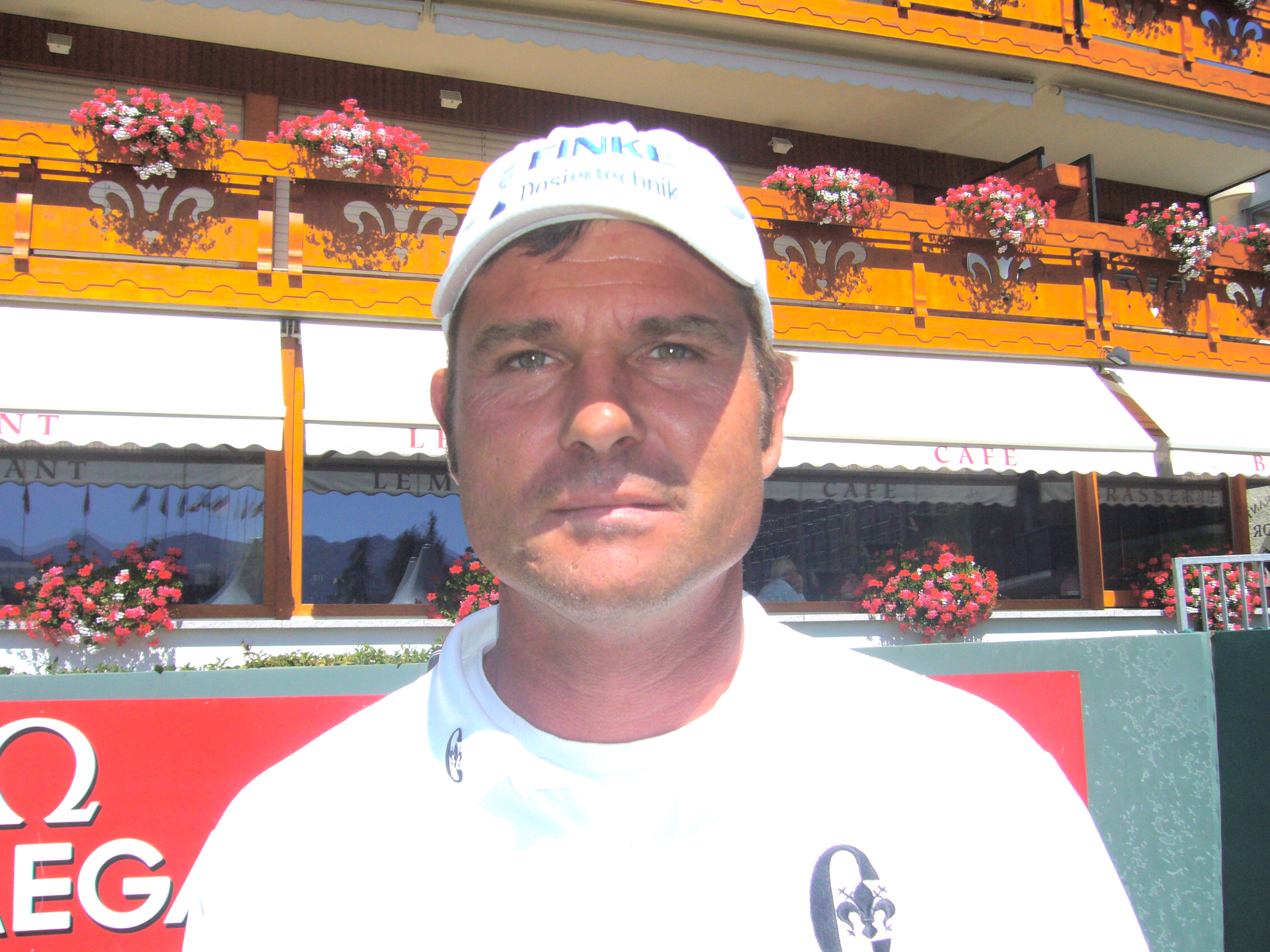 Sven Struver at European Masters 2009 in Crans